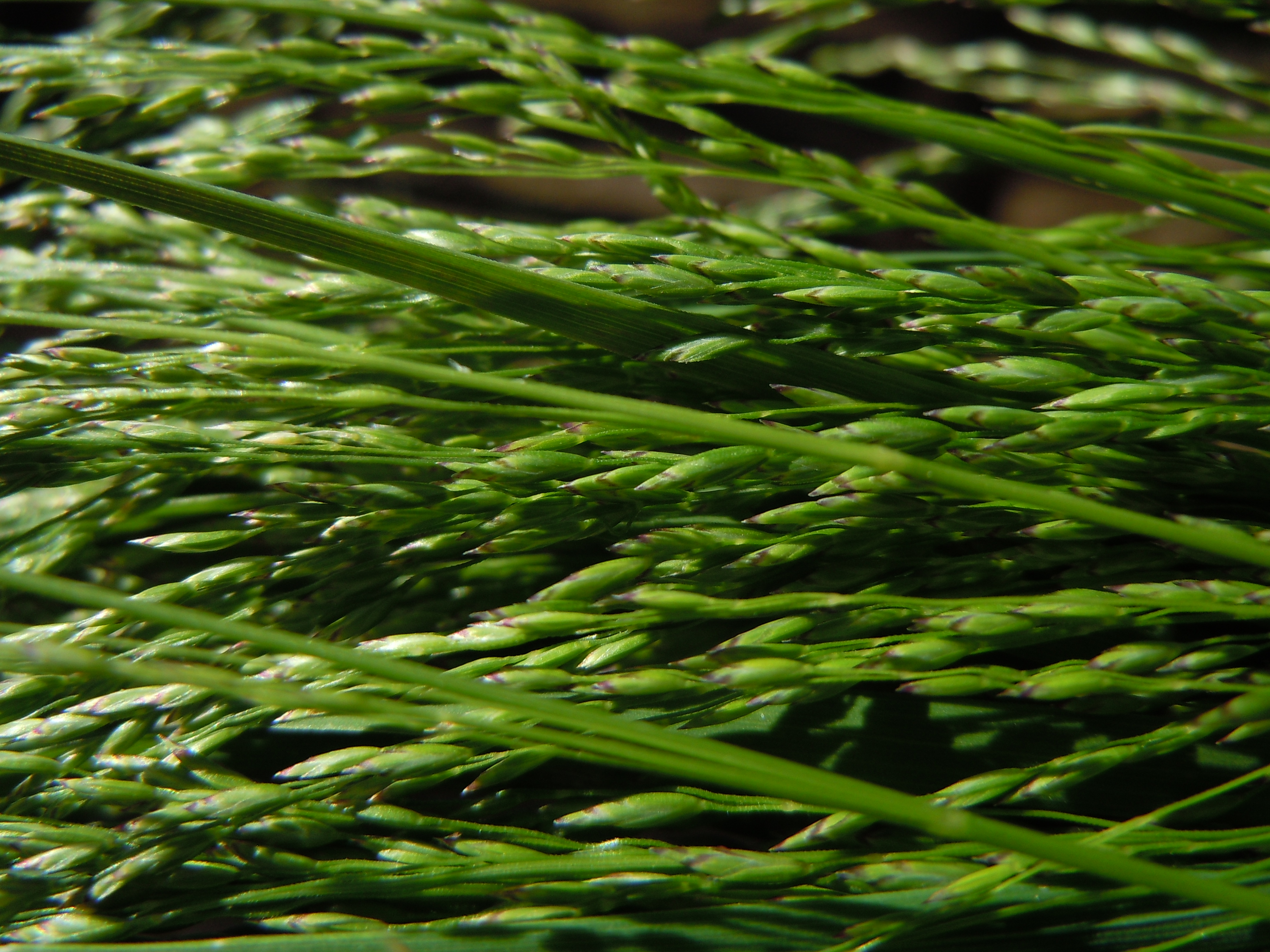 Poa palustris has relatively small spikelets (e.g., less than 4 mm) with tightly overlapping generally hairless florets.